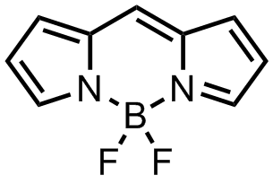 BODIPY core